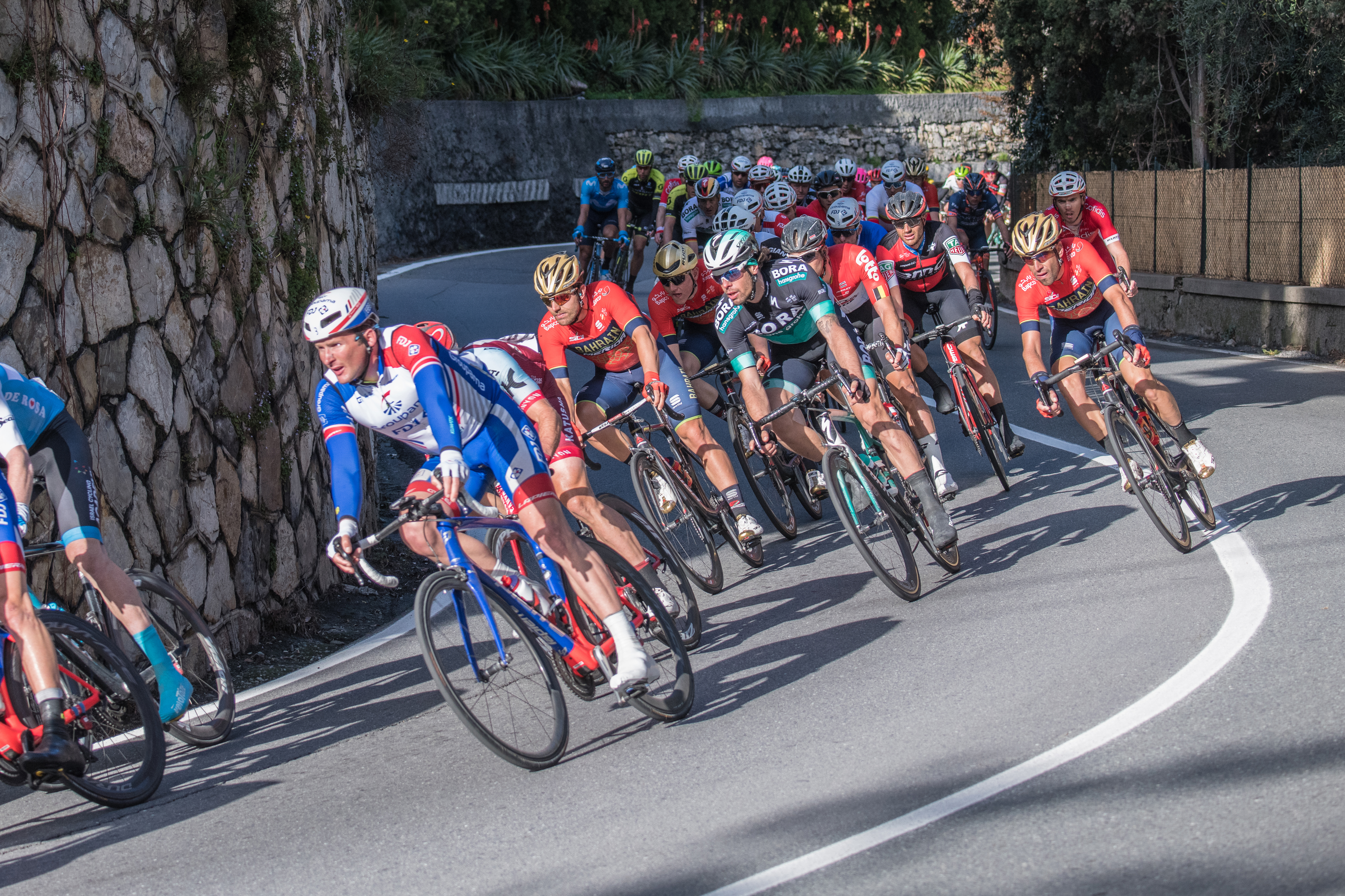 The peloton descending during the 2018 Milan-San Remo